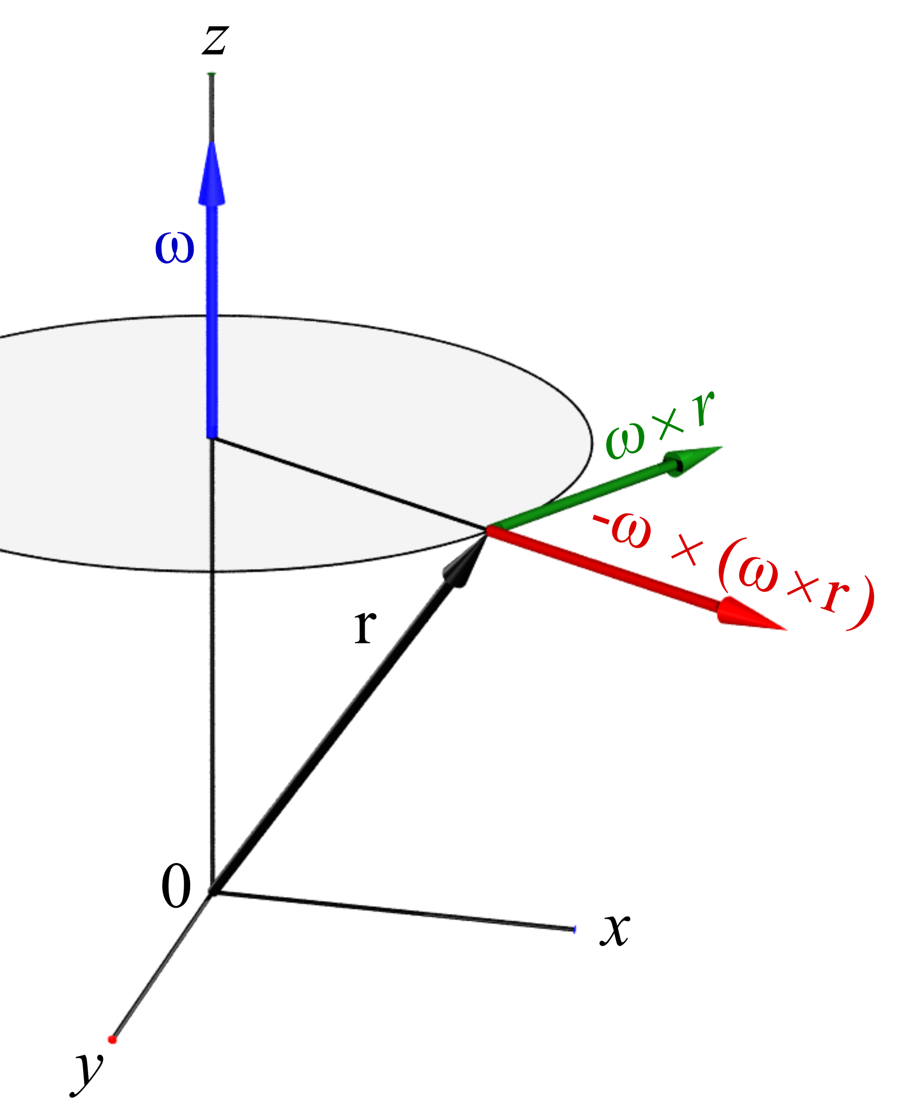 Centrifugal acceleration